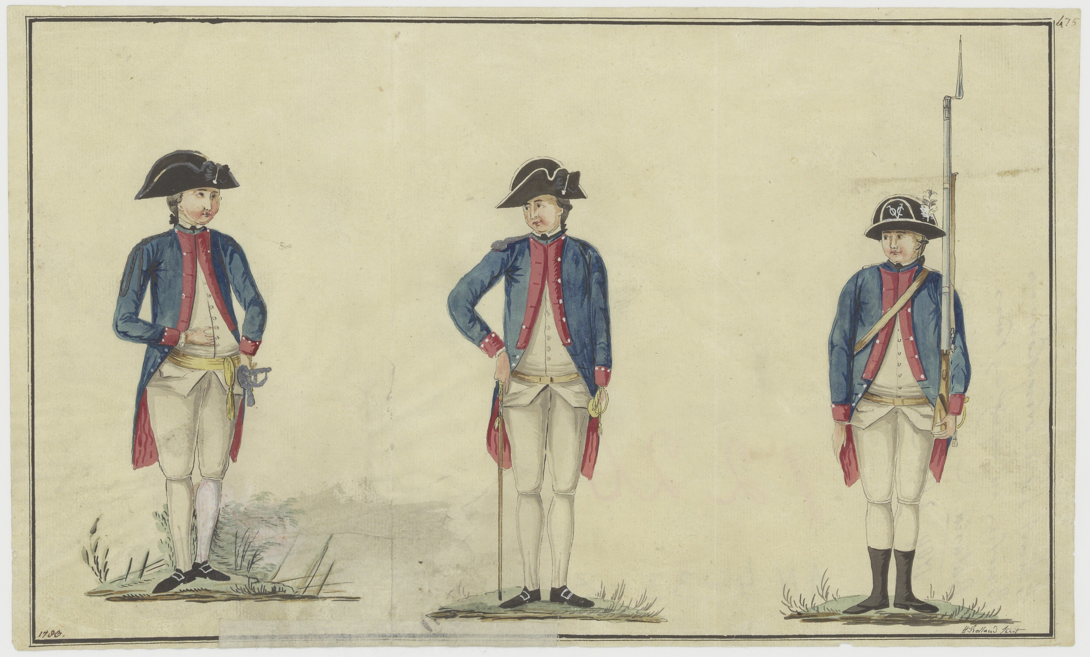 Title in the Leupe catalogue (NA): Afteekening van de Uniform voor de Militairen in Indië. Numbered top right: 475 Notes on reverse: Behoort tot de overgekomen Brieven en papieren van Batavia 1784, 2 deel